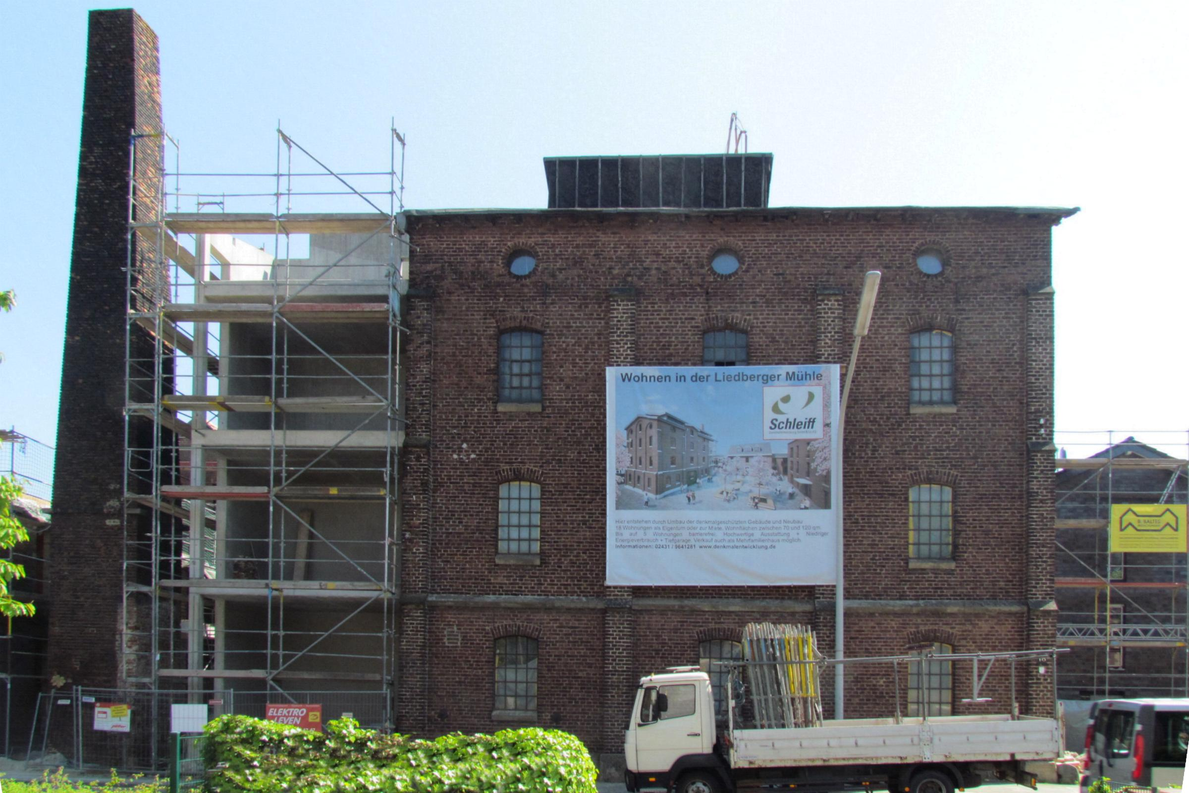 This is a photograph of an architectural monument.It is on the list of cultural monuments of Korschenbroich